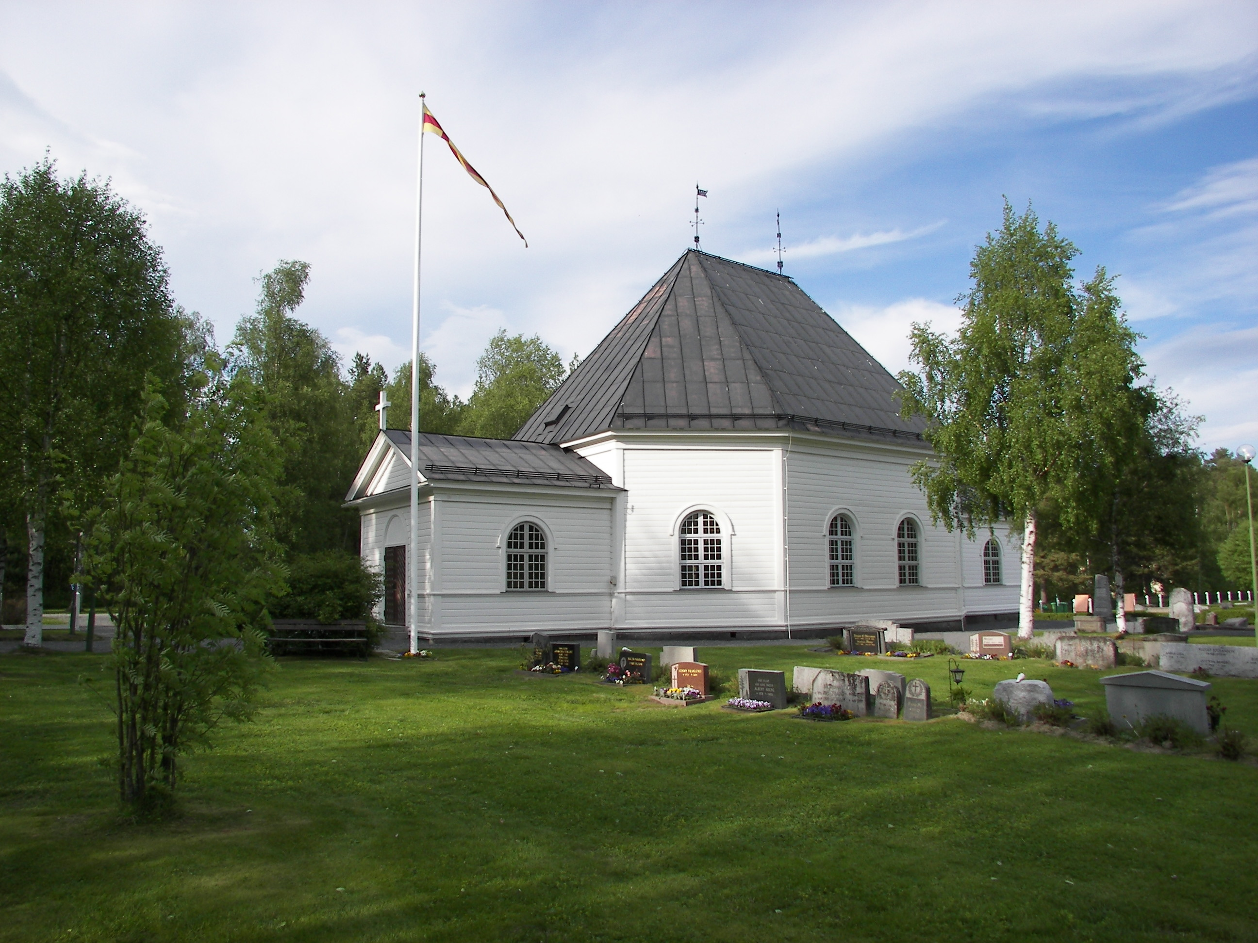 Graninge church, Sweden